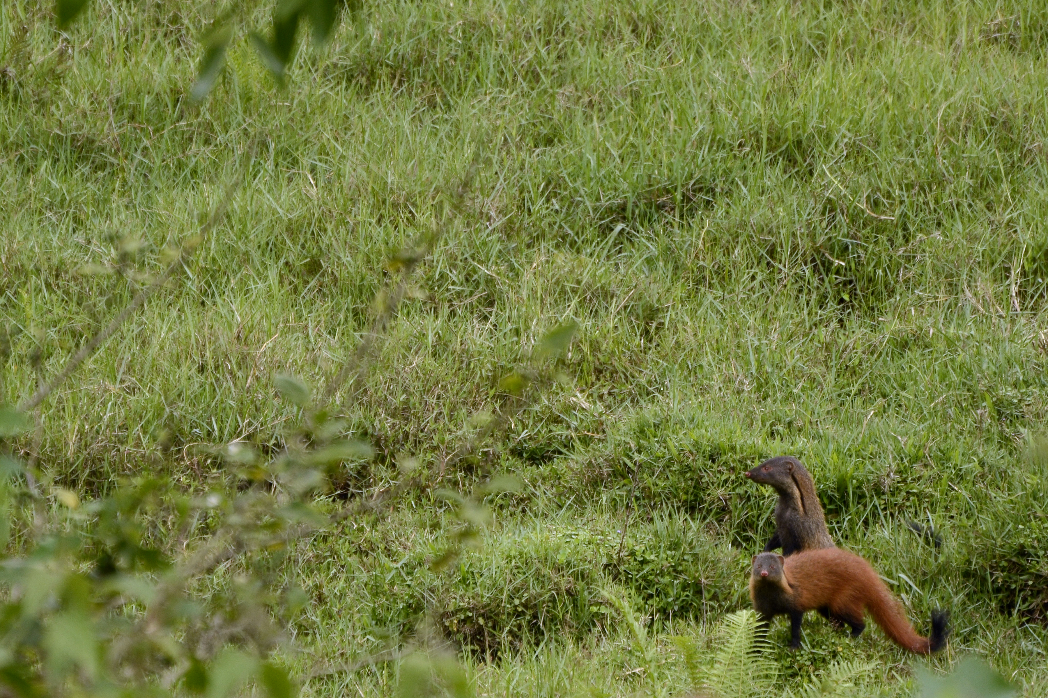 A pair of Stripe-necked Mongoose from Anamalai Hills, Southern Western Ghats, India/ செங்கீரி